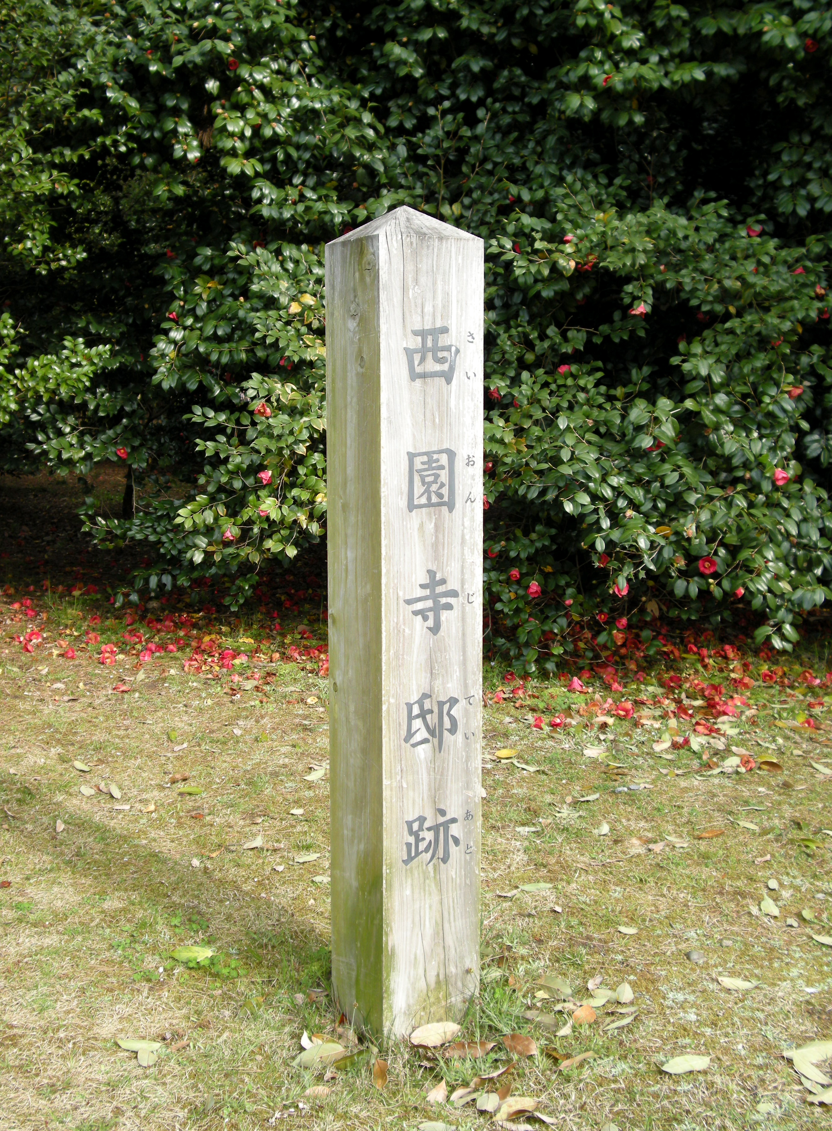 Saionji House Site in the Kyoto Imperial Palace (Kyoto, Japan)